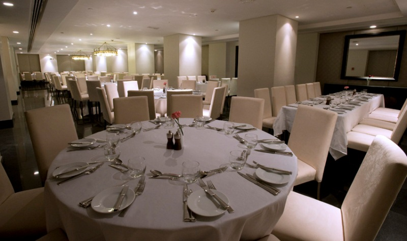 Banqueting Set Up at Shaza Al Madina